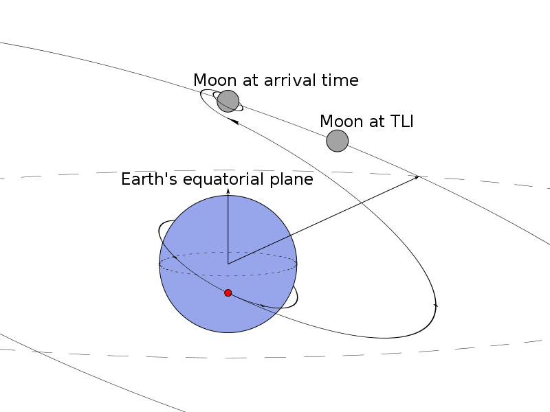 Perspective view of a lunar transfer trajectory.